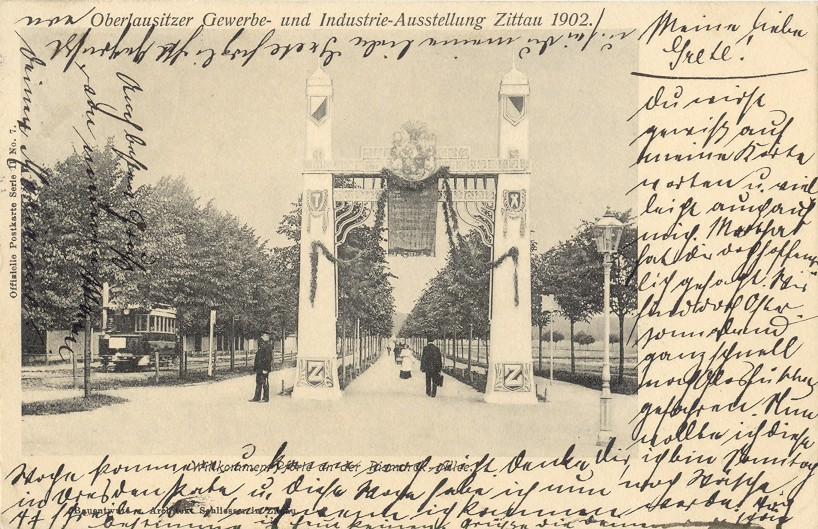 Zittau industrial exhibition 1902 with accumulator tram